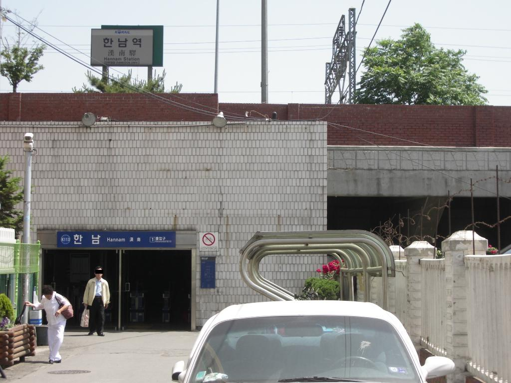 Hannam Station entrance